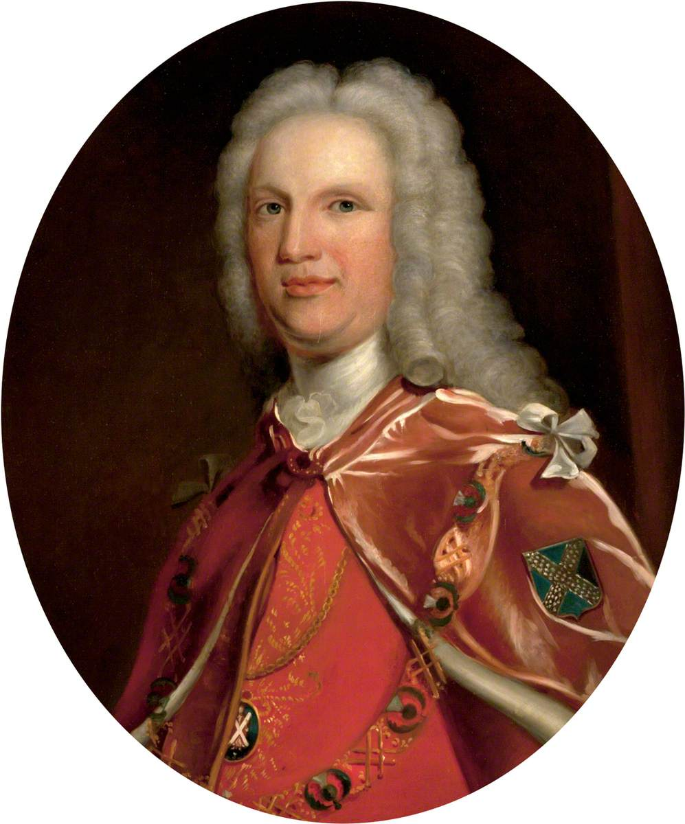 An oval oil on canvas depiction of Alexander Brodie, the 19th Laird and Lord Lyon. Alexander has been depicted in half length and in his in robes of office.; " Alexander Brodie, 19th of Brodie was born on 17 August 1697. He was the son of George Brodie, 17th of Brodie and Emilia Brodie. He married Mary Sleigh on 3 September 1724. He died on 9 March 1754 at age 56. He held the position of 19th Chief of Clan Brodie in 1720. He held the office of Member of Parliament (M.P.). He held the office of Lord Lyon King of Arms between 1727 and 1754." (Peerage)